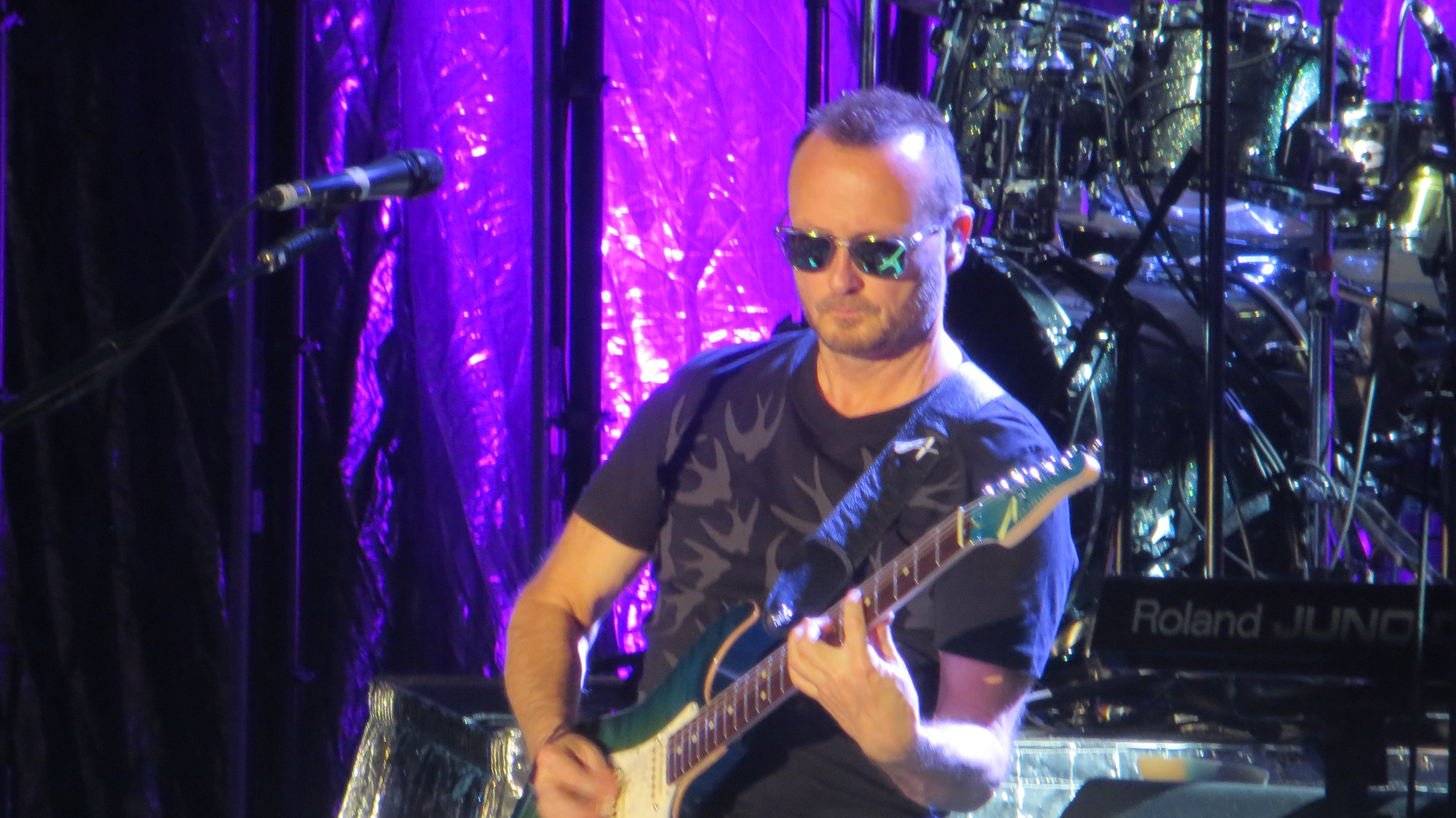 Jim Corr in Vienna (Stadthalle, 2016)